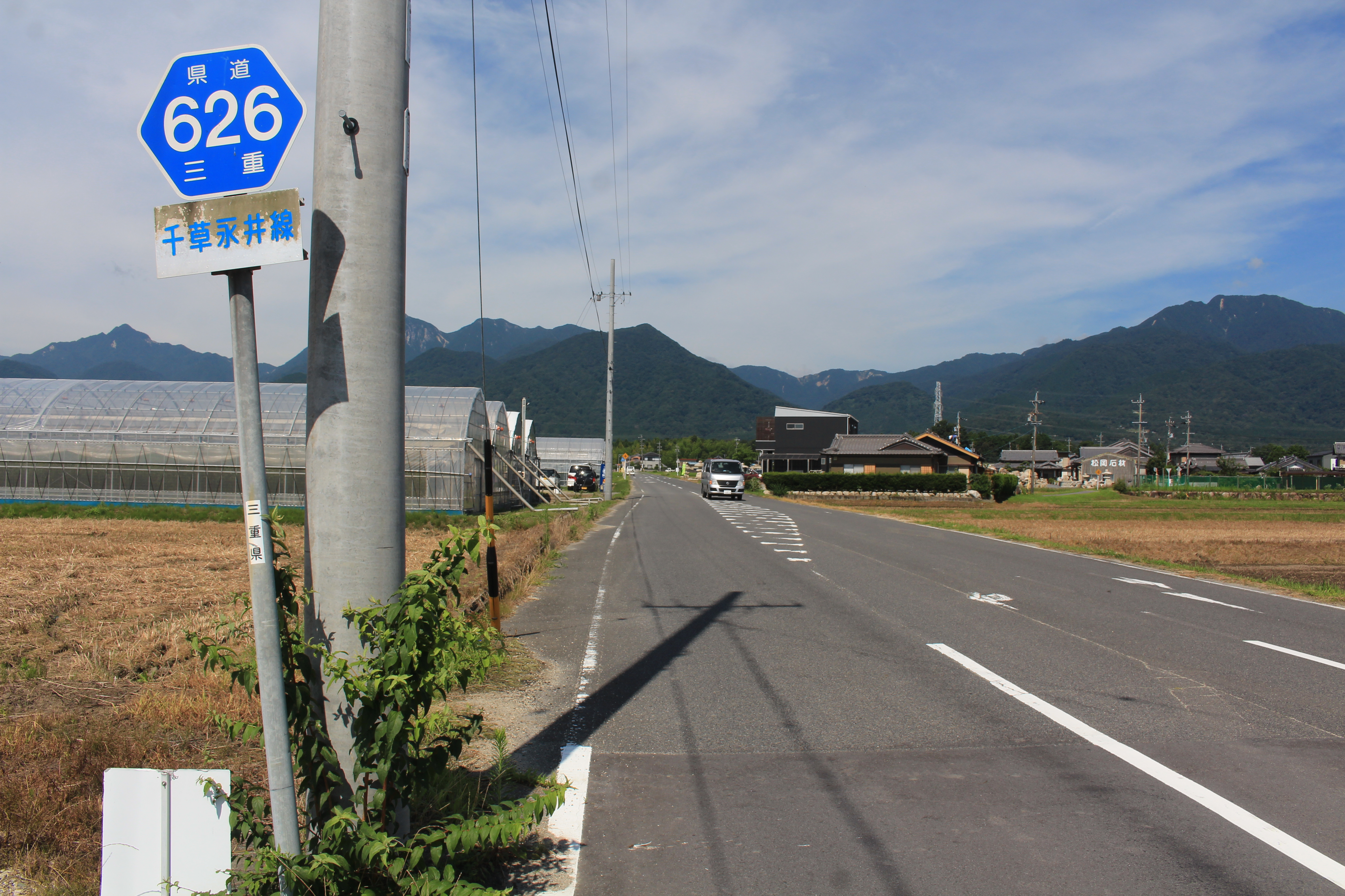 Mie Prefectural Road Route 626 in Chikusa, Komono, Mie Prefecture, Japan.